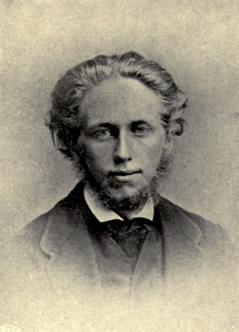 Portrait of Richard Jefferies